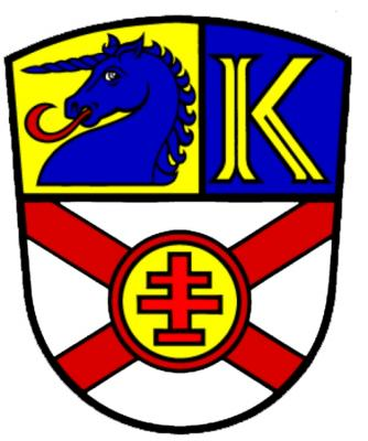 Coat of arms of the town of Tapfheim.